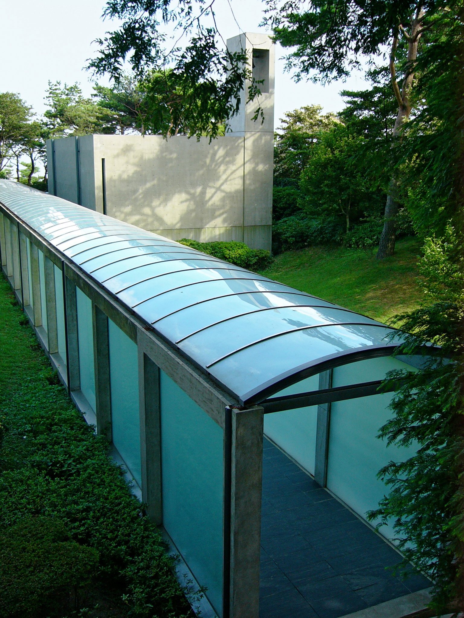 Church of the Wind in Kobe, Hyogo prefecture, Japan